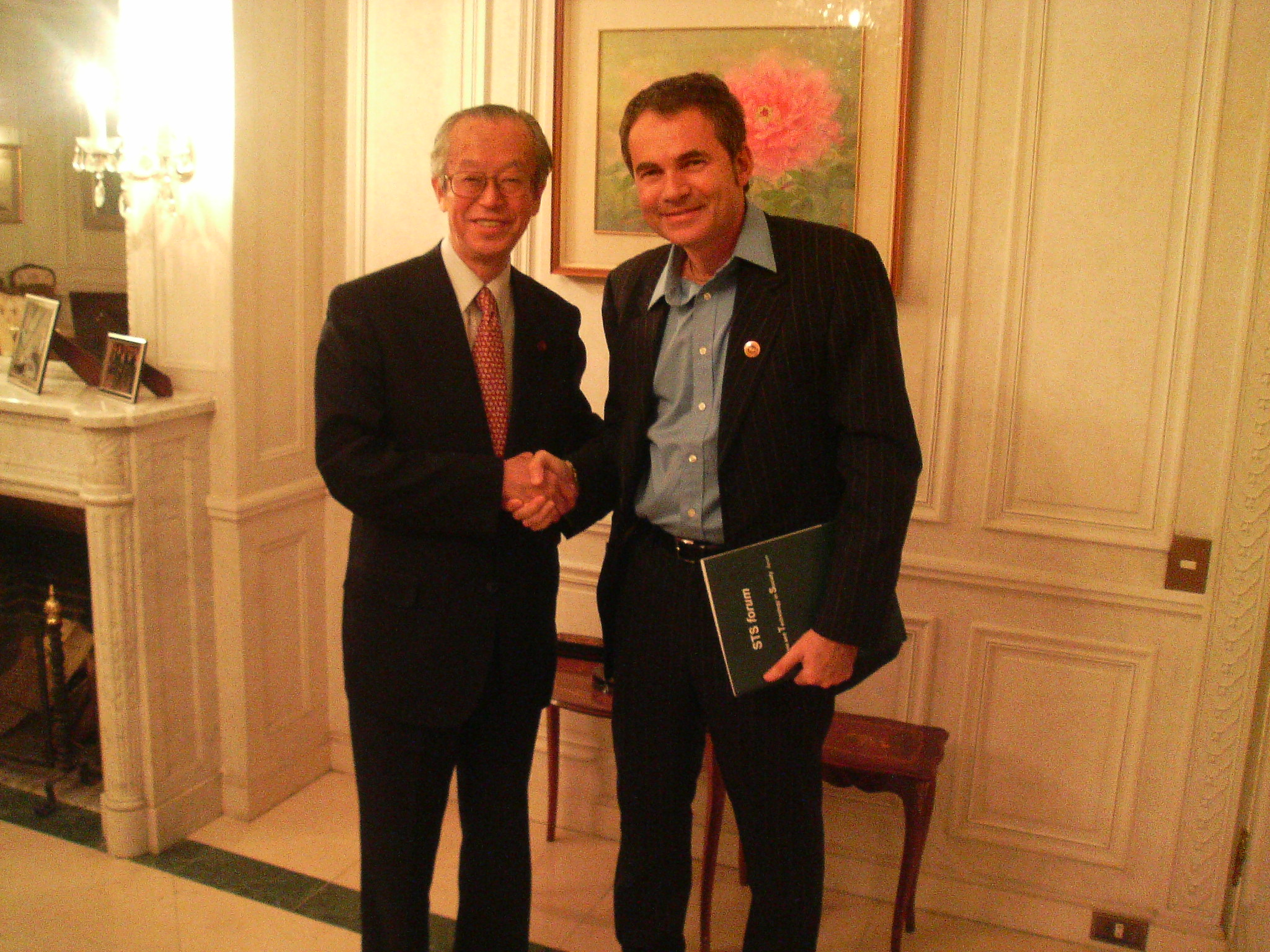 Dinner at the home of Ambassador Motohide Yoshikawa